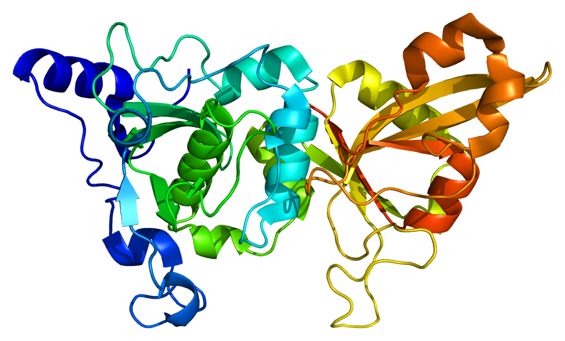 Structure of the CAPN1 protein. Based on PyMOL rendering of PDB 1zcm.